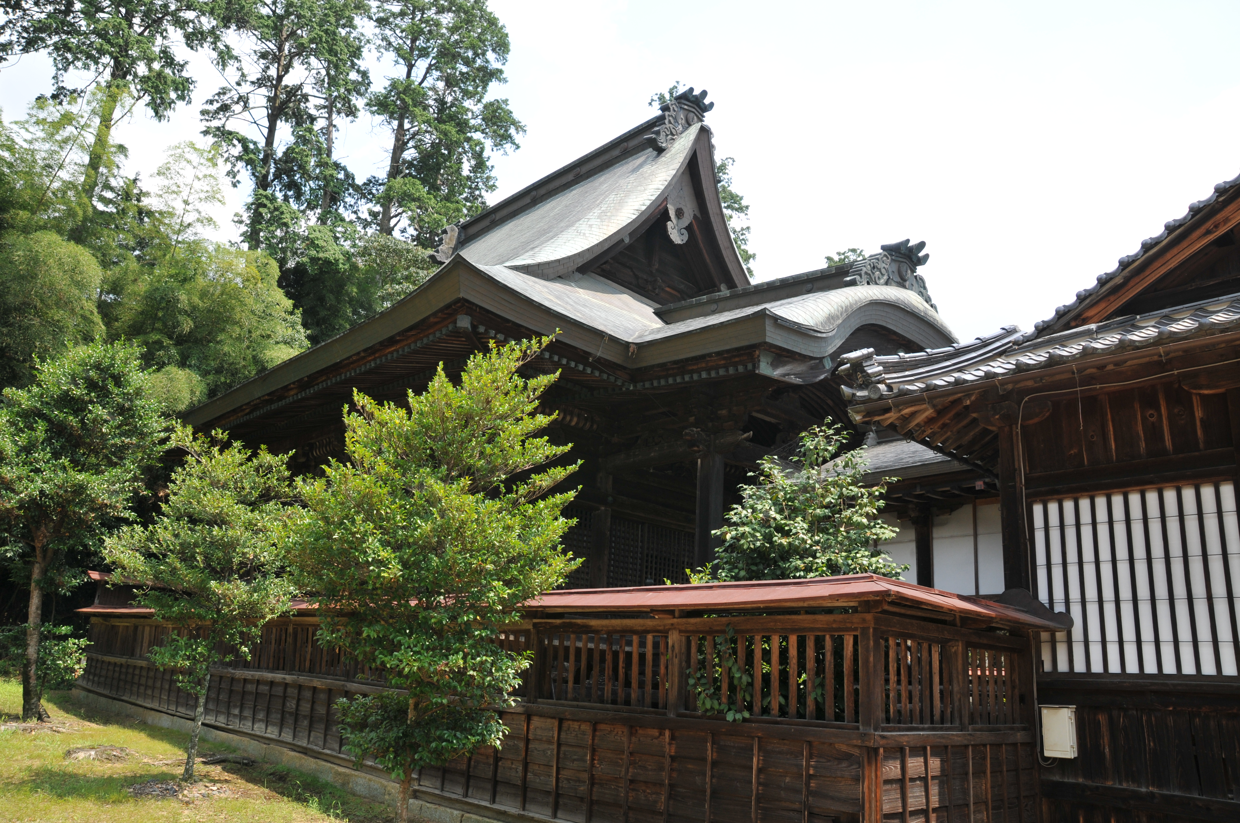 Main shrine, Takano jinja